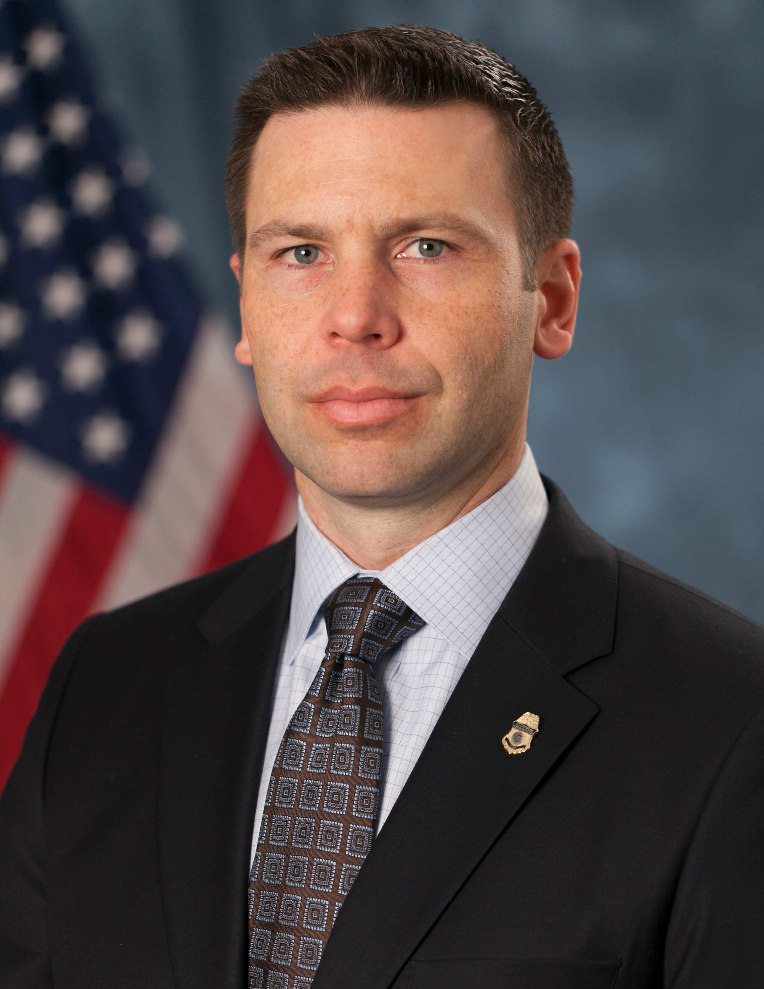 Kevin McAleenan official photo